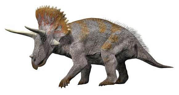 Life reconstruction of Triceratops horridus